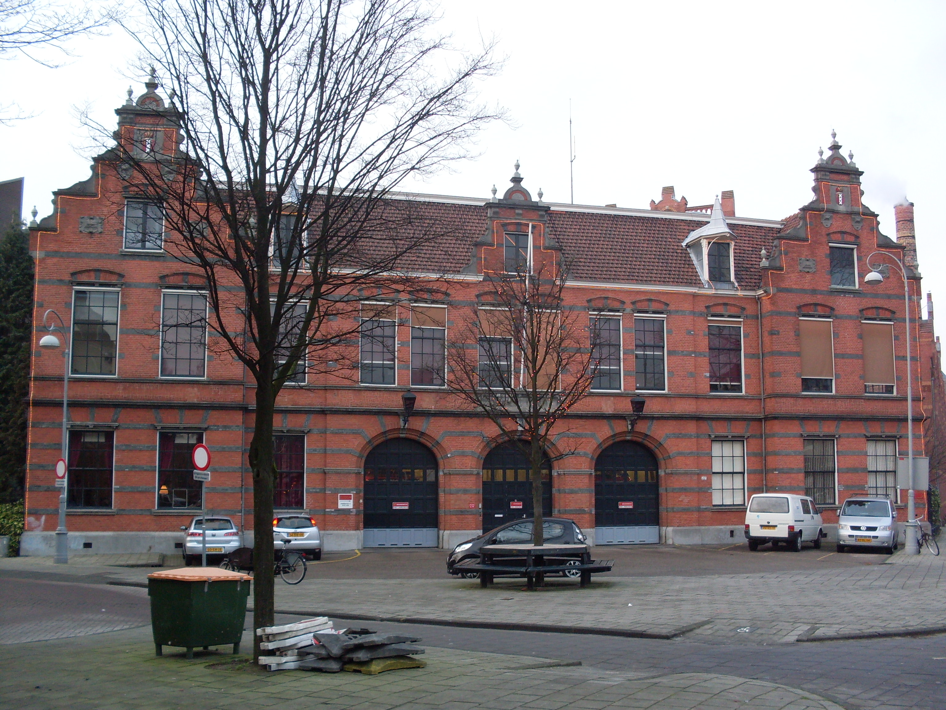 Fire station (still in use)